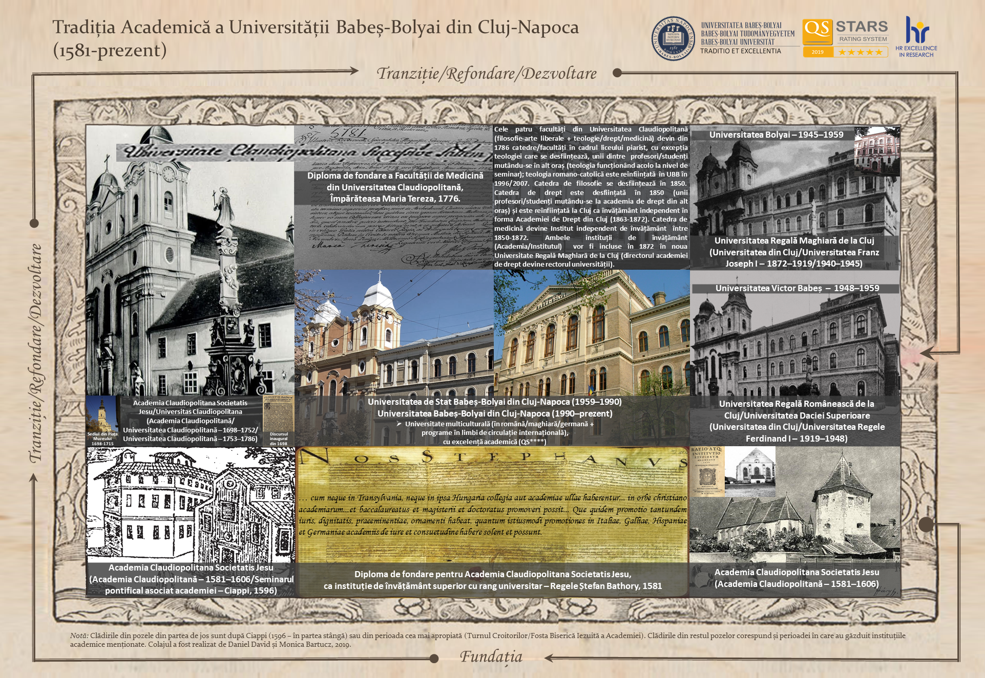 Different buildings that hosted the University in Cluj-Napoca from 1581 to modern times